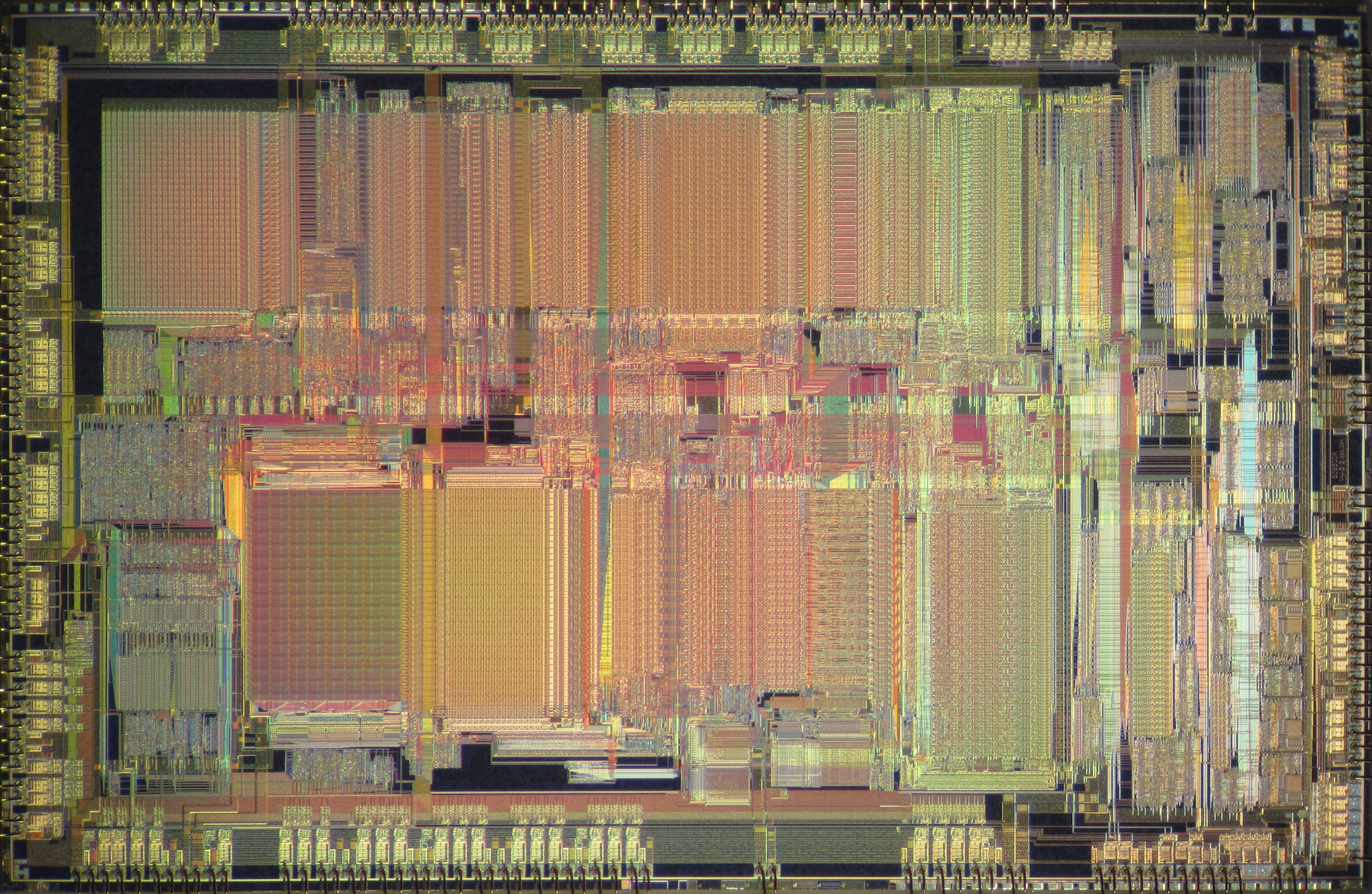 Die shot of Intel 80960CA microprocessor (A80960CA33, D2 stepping).